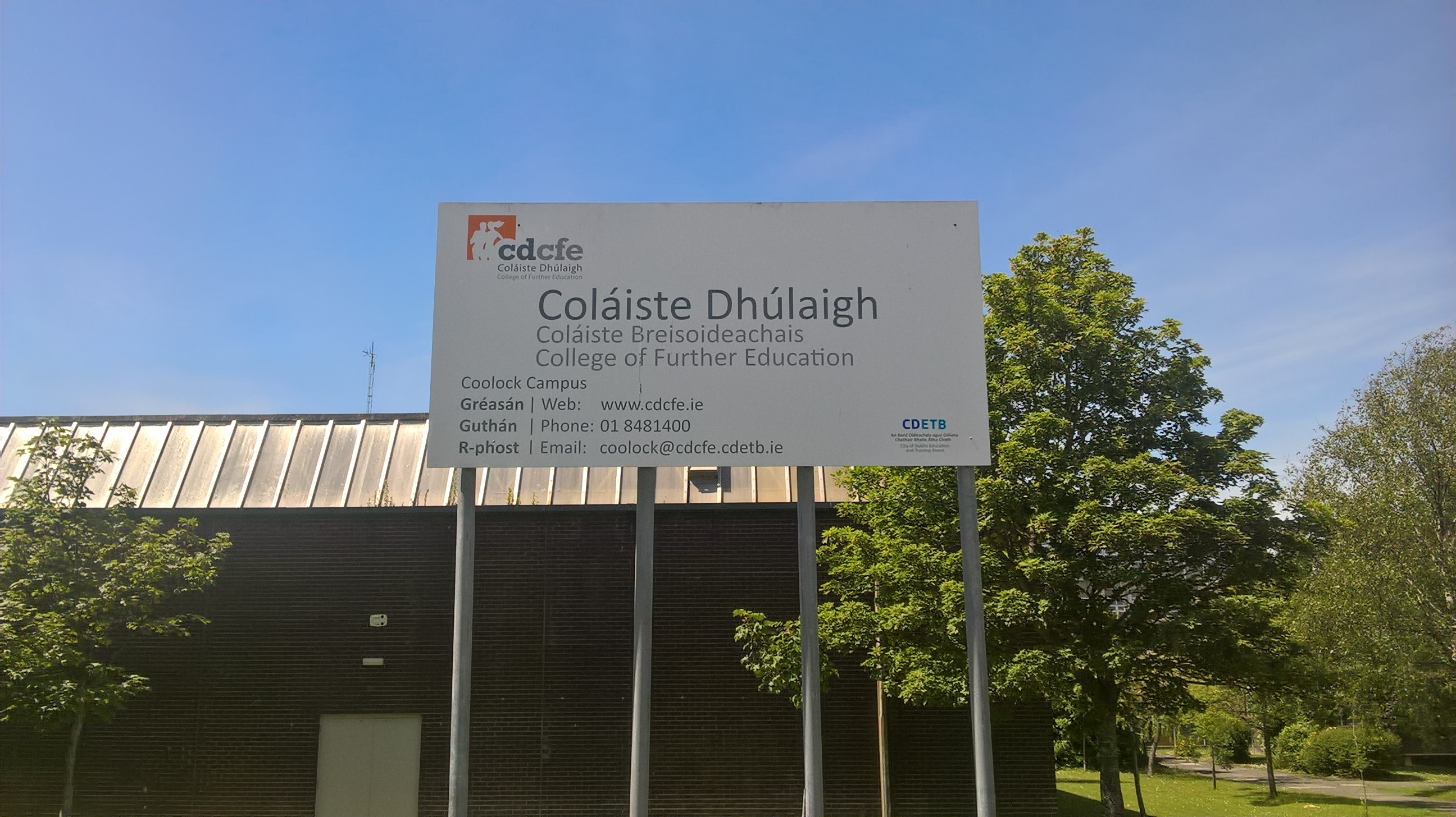 Coláiste Dhúlaigh College of Further Education sign in Coolock.